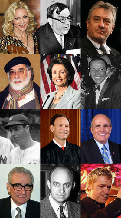 Notable Italian Americans.